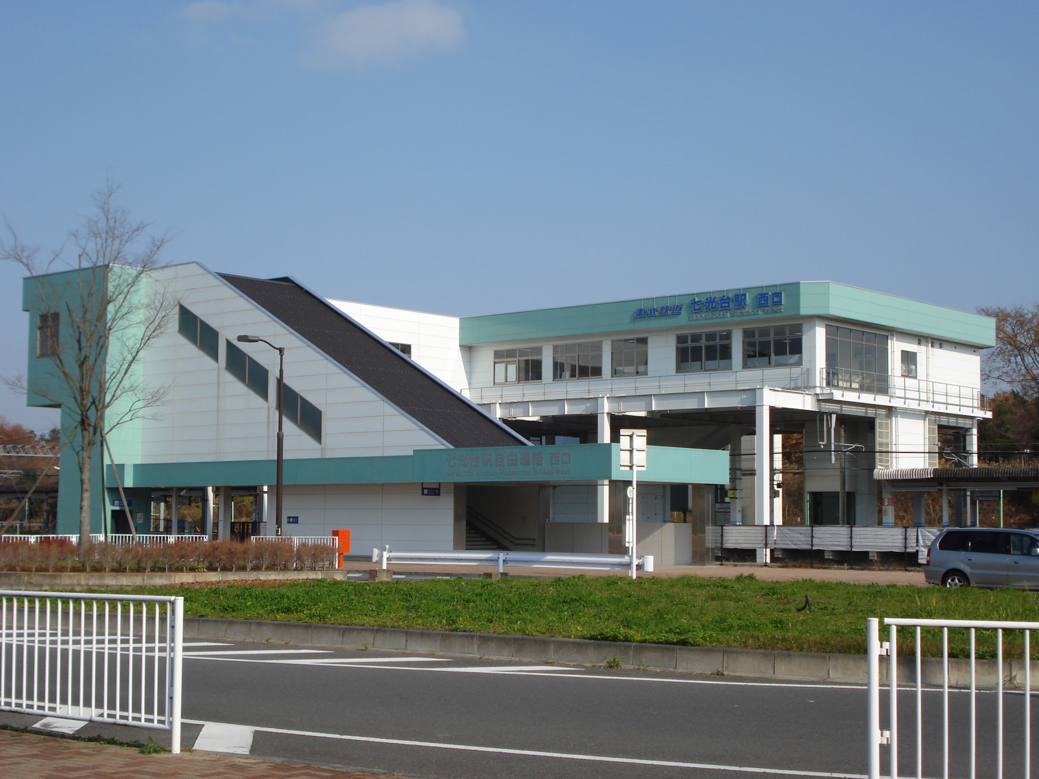 The West entrance of Nanakodai Station on the Tobu Noda Line in Noda, Chiba)